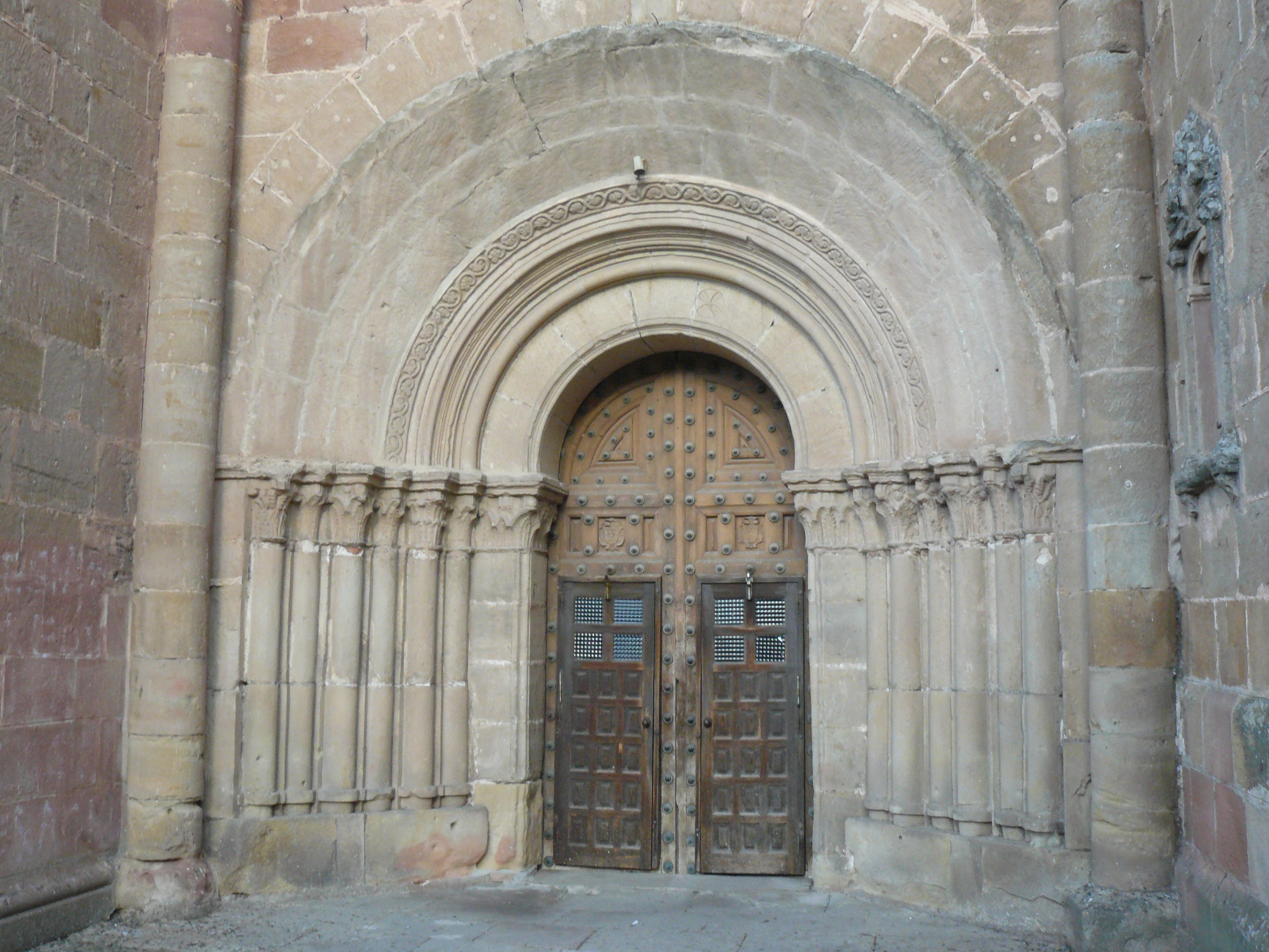 Western view of the Cathedral of Sigüenza, Guadalajara (Spain).Detail. Right portico